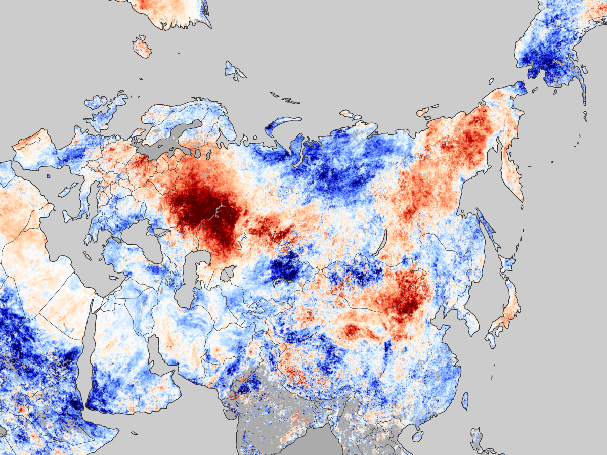 Surface temperatures anoamlies from July, 20 to July, 27 ; showing the russian heat wave of 2010 (2010 Russian wildfires).